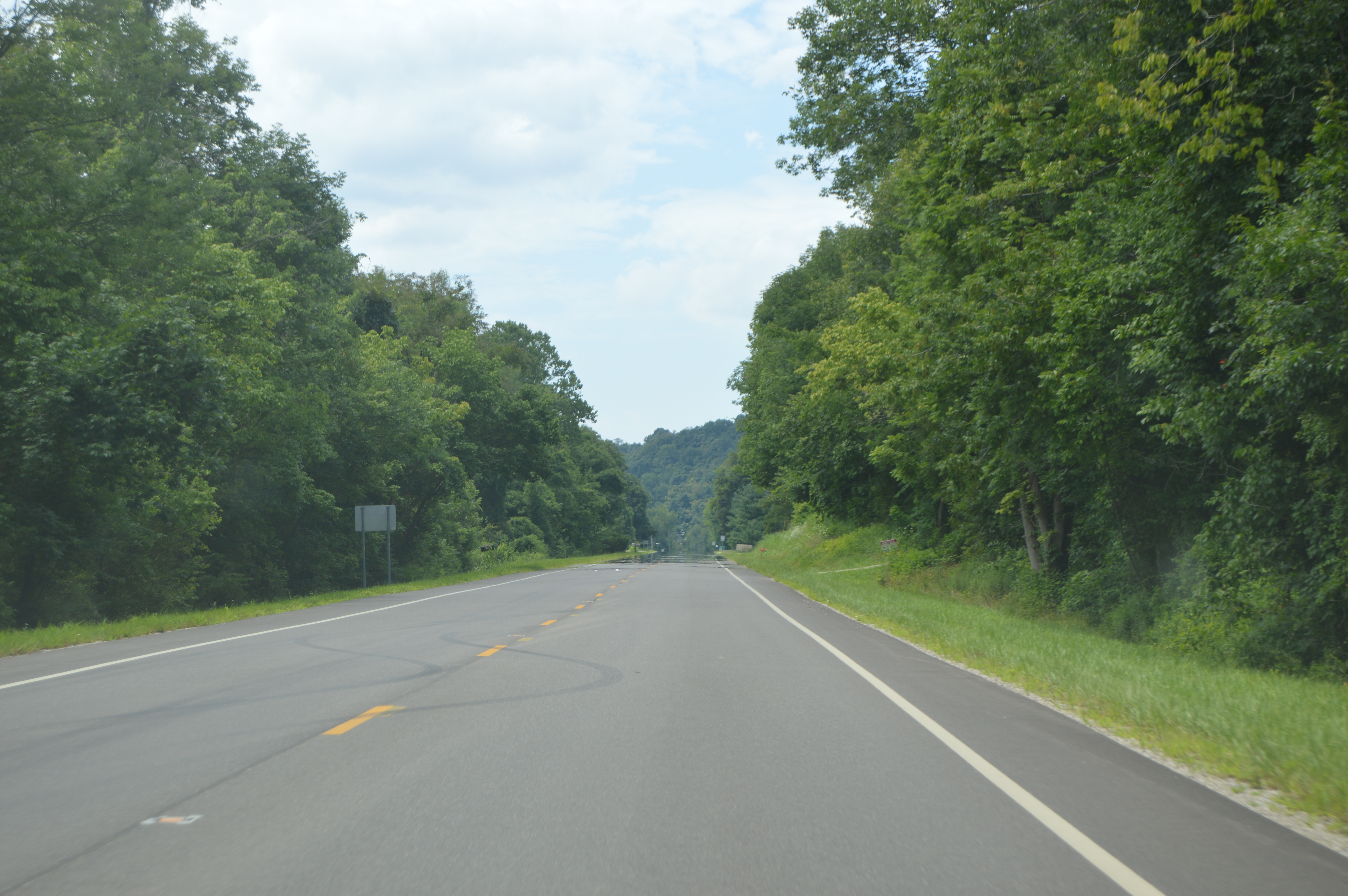 Looking westward on State Route 7 just east of the Crown City village limits in Guyan Township, Gallia County, Ohio, United States. The entire pictured area is within the boundaries of the Wayne National Forest.